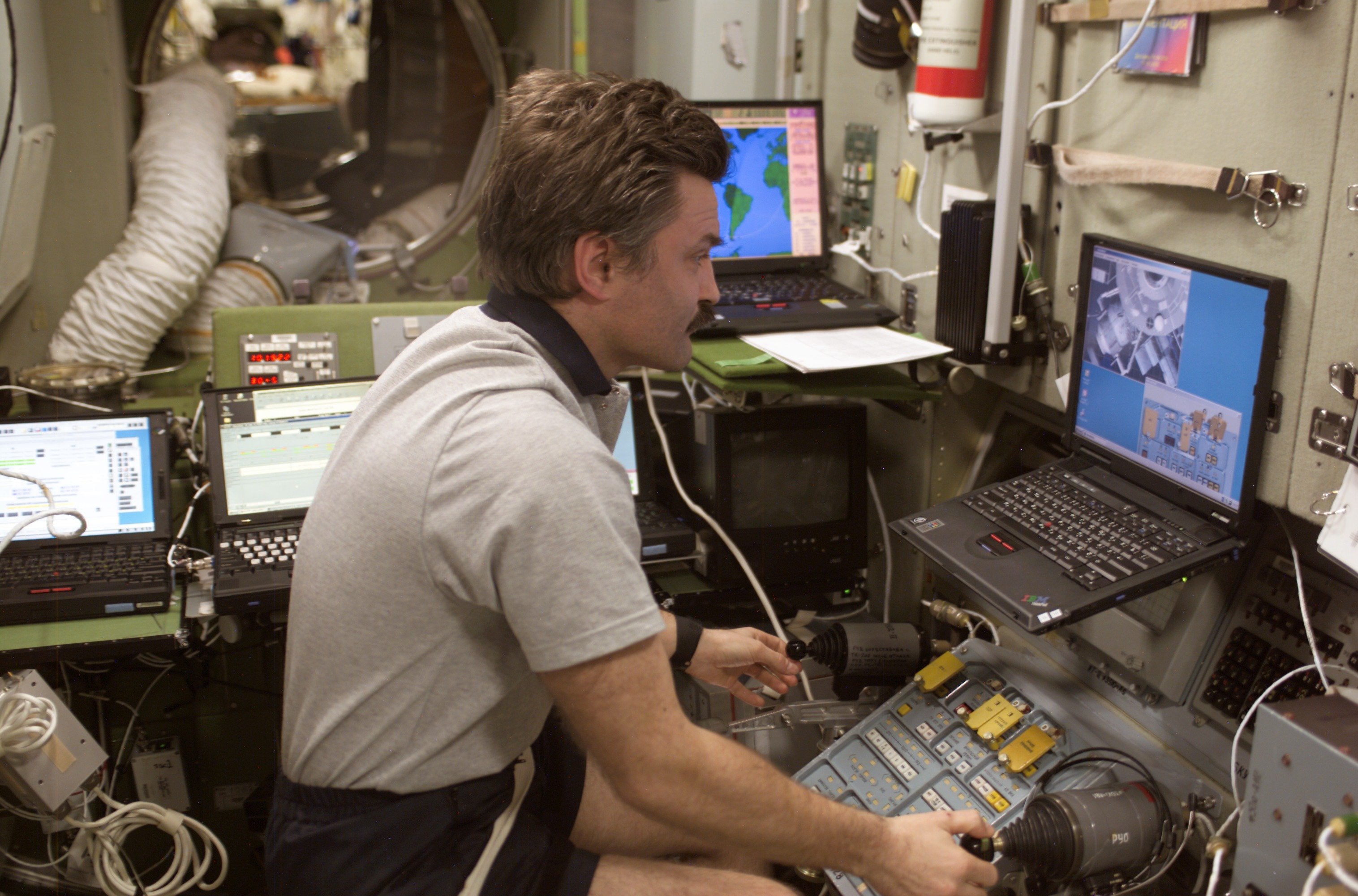 TORU docking system used to manually dock Progress freighters to ISSCosmonaut Alexander Y. Kaleri, Expedition 8 flight engineer, practices docking procedures with the manual TORU rendezvous system in the Zvezda Service Module on the International Space Station (ISS) in preparation for the docking of the Progress 13 on January 31. With the manual TORU mode, Kaleri can perform necessary guidance functions from Zvezda via two hand controllers in the event of a failure of the “Kurs” automated rendezvous and docking (AR&D;) of the Progress. Kaleri represents Rosaviakosmos.